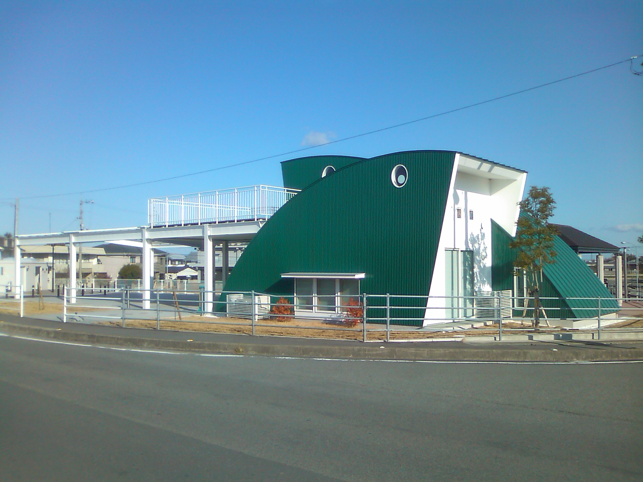 Aqua Plaza, a resting place in Kitajima-cho Mizube Koryu Plaza, Japan